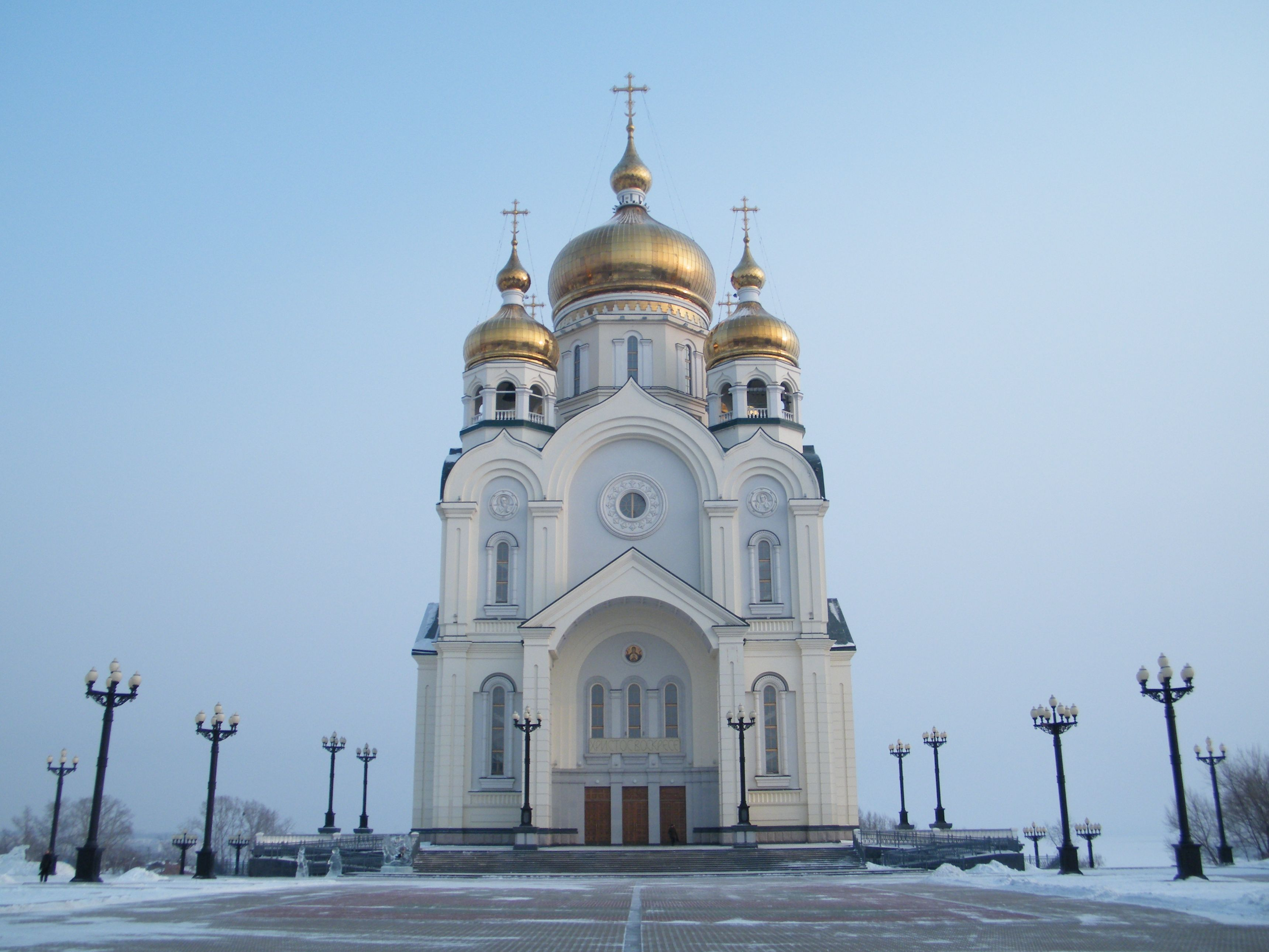 Cathedral of the Transfiguration (Khabarovsk)